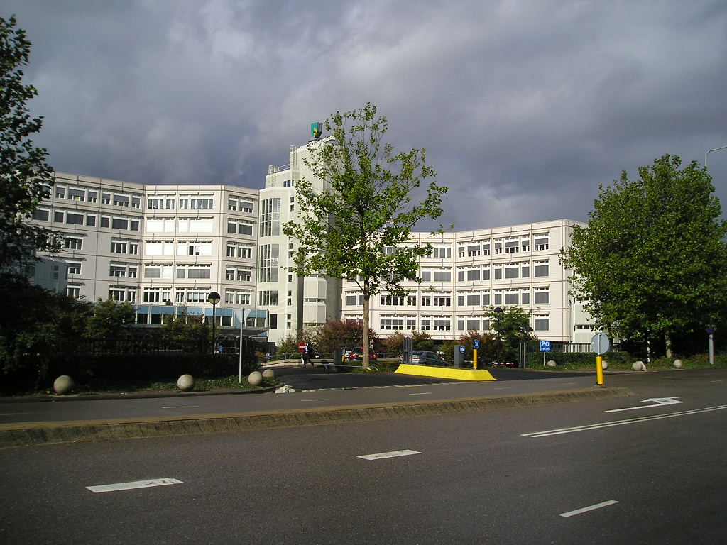 The branch of ABN AMRO in the Foppingadreef nr. 22 in Amsterdam.